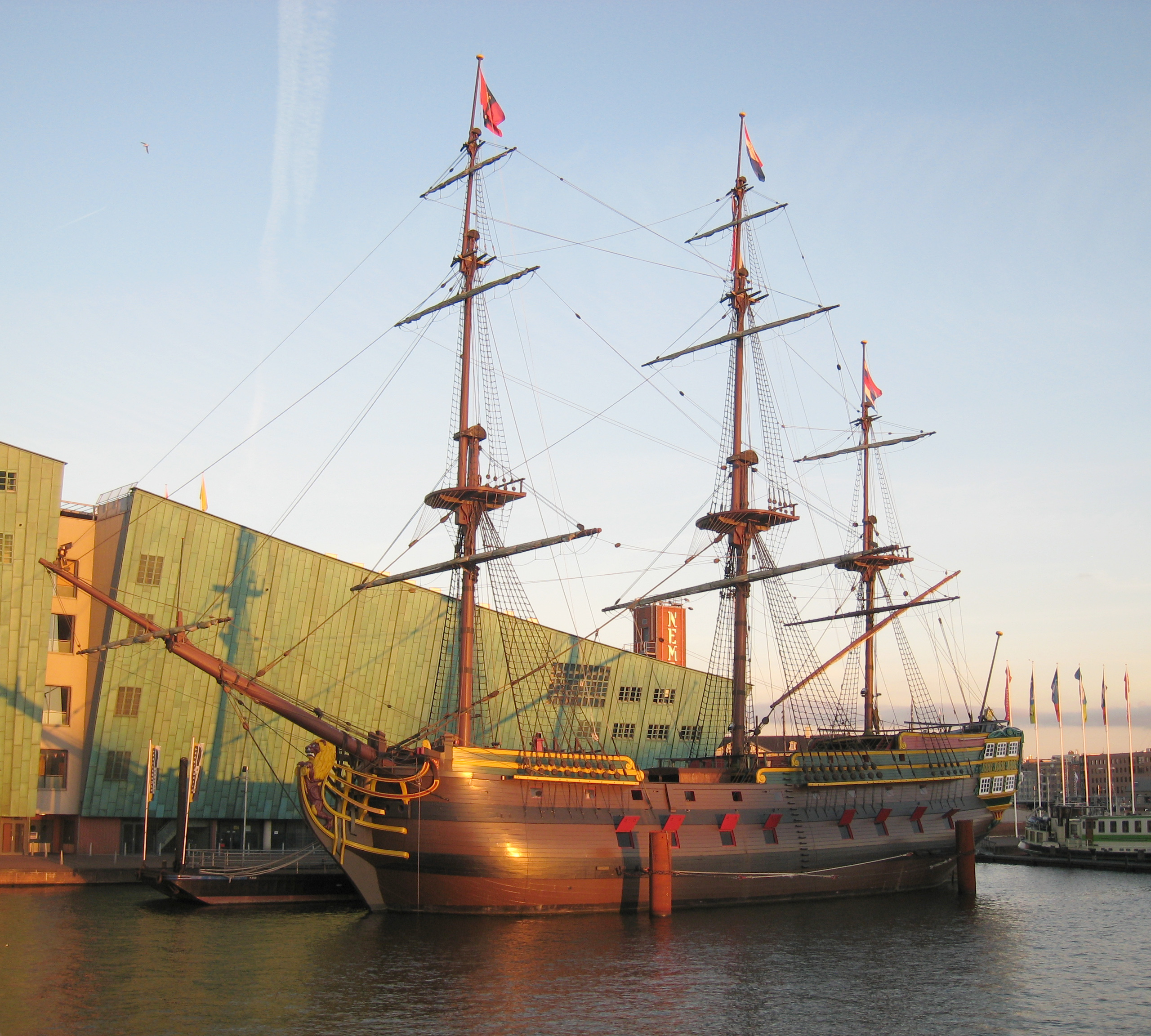 Replica of the VOC ship Amsterdam. Location: NEMO science center, Amsterdam, Holland.